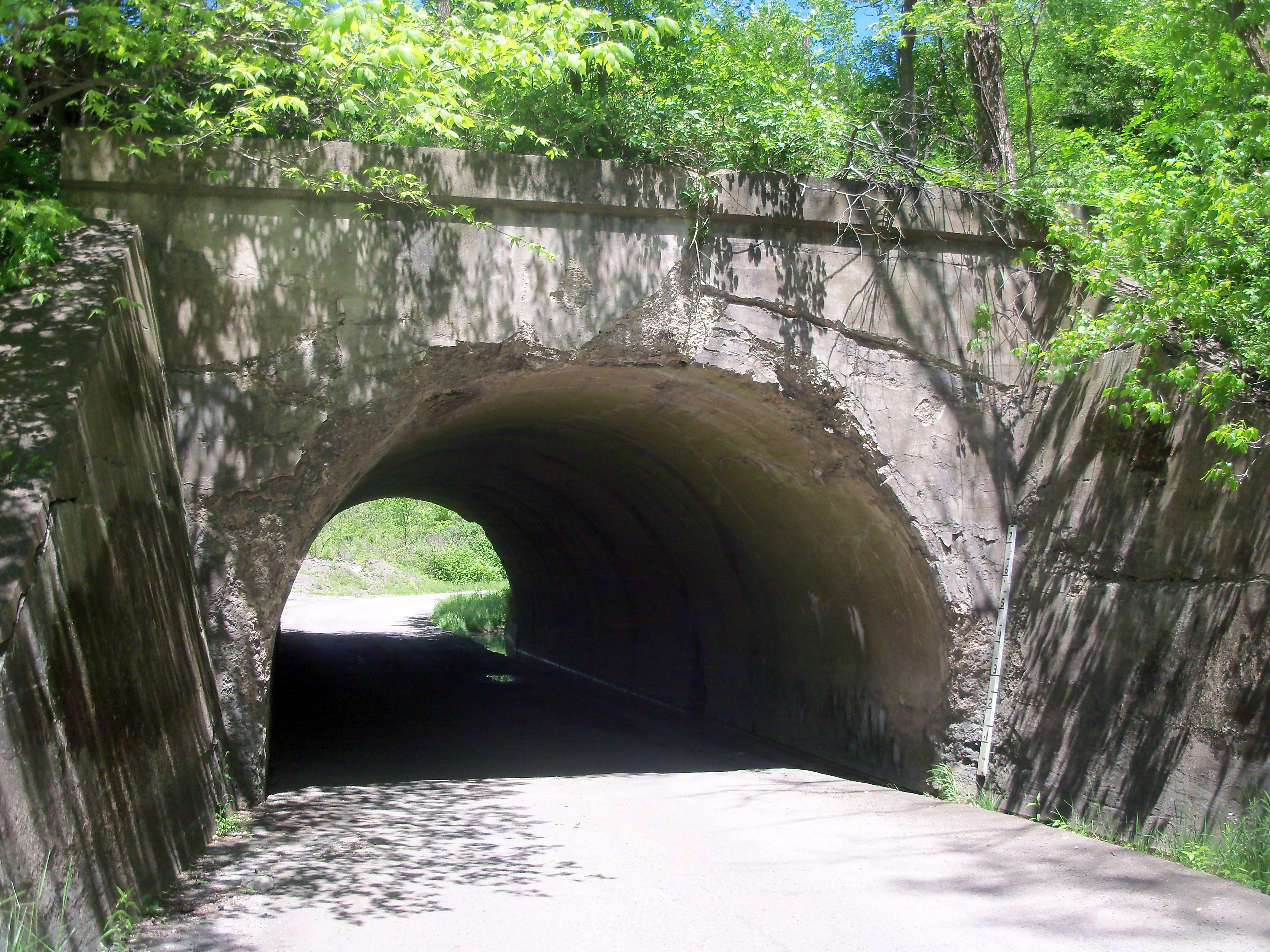 Cool Springs Road (Steubenville Township Road 167A) passes under Wheeling and Lake Erie tracks just to the east of the Coen Tunnel near Mingo Junction, Ohio. Seen from south.